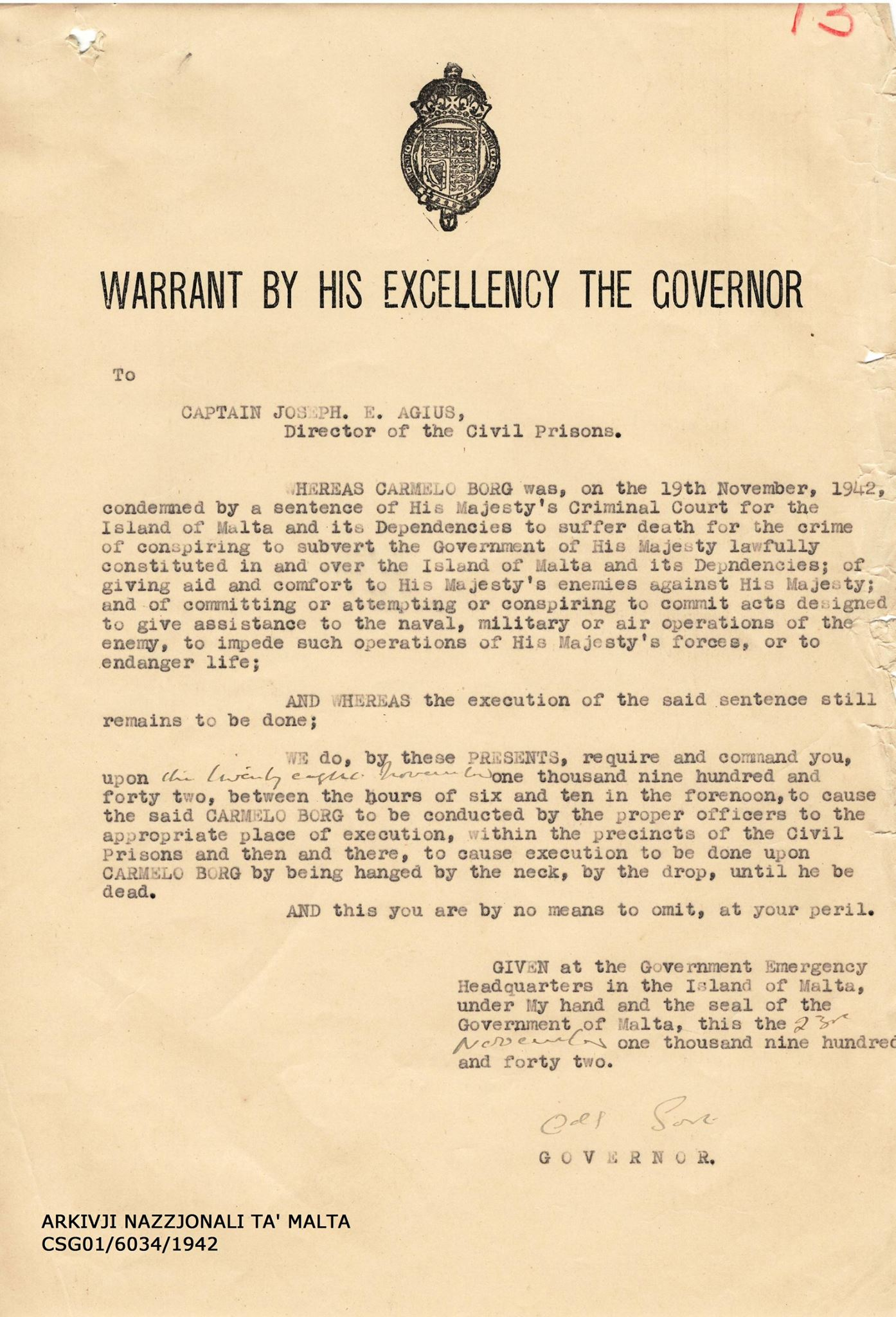 Warrant by the Governor to Joseph Agius, the Director of Prisons, to execute Carmelo Borg Pisani in prison on the 28 November between six and ten in the morning. Malti: Warrant miIl-Gvernatur lil Joseph Agius, id-Direttur tal-Ħabs, biex Carmelo Borg Pisani jiġi mgħallaq fil-ħabs fit-28 ta’ Novembru bejn is-sitta u l-għaxra ta’ fil-għodu.